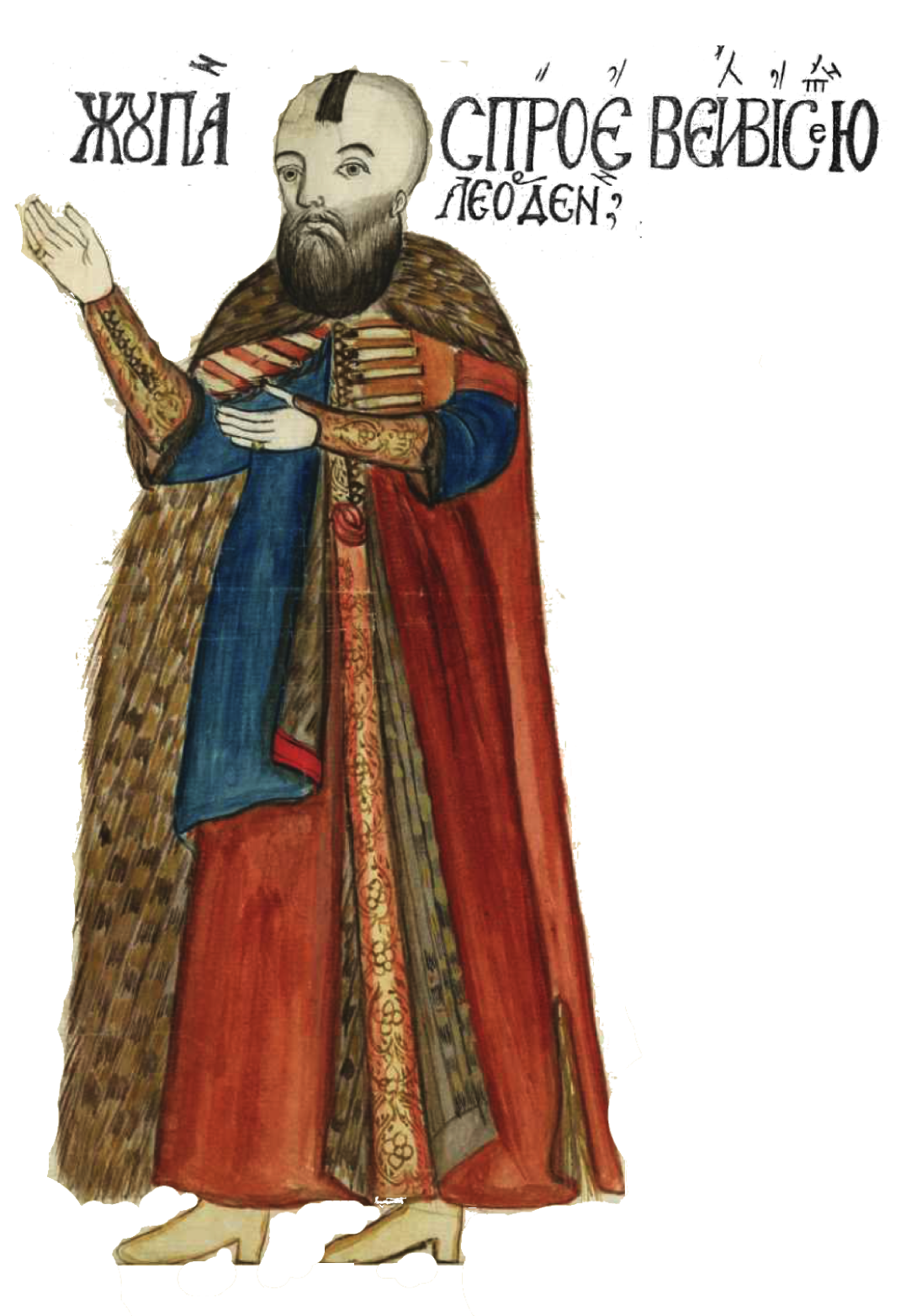 Reproduction of a watercolor discovered in Bucharest's Leurdeanu home, depicting Stroe Leurdeanu, the Wallachian treasurer, alongside a similar portrait of his in-law Preda Brâncoveanu. Preserved by Nicolae Crețulescu and then by the Romanian Academy Library, both were copies of a completed fresco in Leurdeni church, though they are sometimes described as preliminary studies from the 1650s. See: Ionescu-Gion, pp. 57, 61, 66; Ancuța Elena Soare, Elena Drăgan Popescu, "Vestimentația laică din tablourile ctitorilor de biserici – o identitate a spațiului argeșean în secolul al XVII-lea", in Botoșineanu et al., pp. 467–469